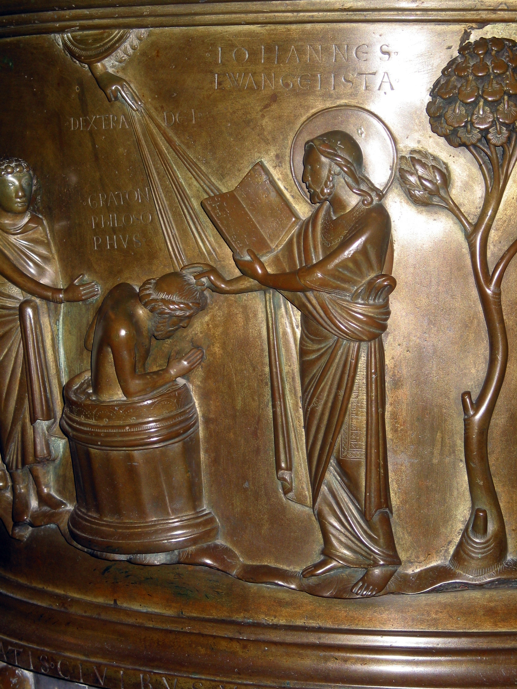 Liège (Belgium), St. Barhélemy (Bartholomew) - Baptismal font of Renier de Huy (begin of the XIIth century). - The baptism of the Greek philosopher Crato.